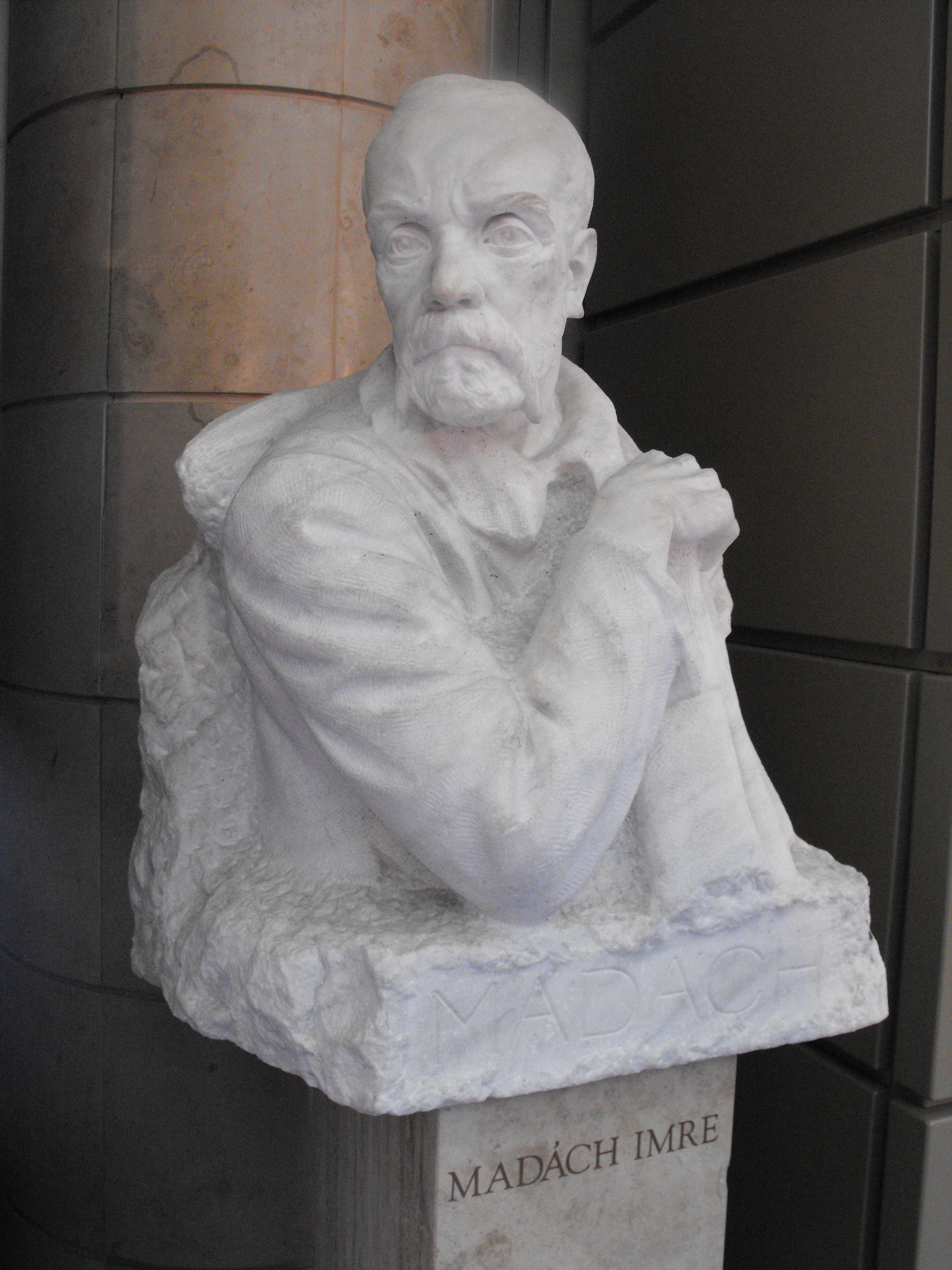 Statue of Imre Madách in the National Theatre, Budapest, Hungary. Sculptor: Sándor Somló